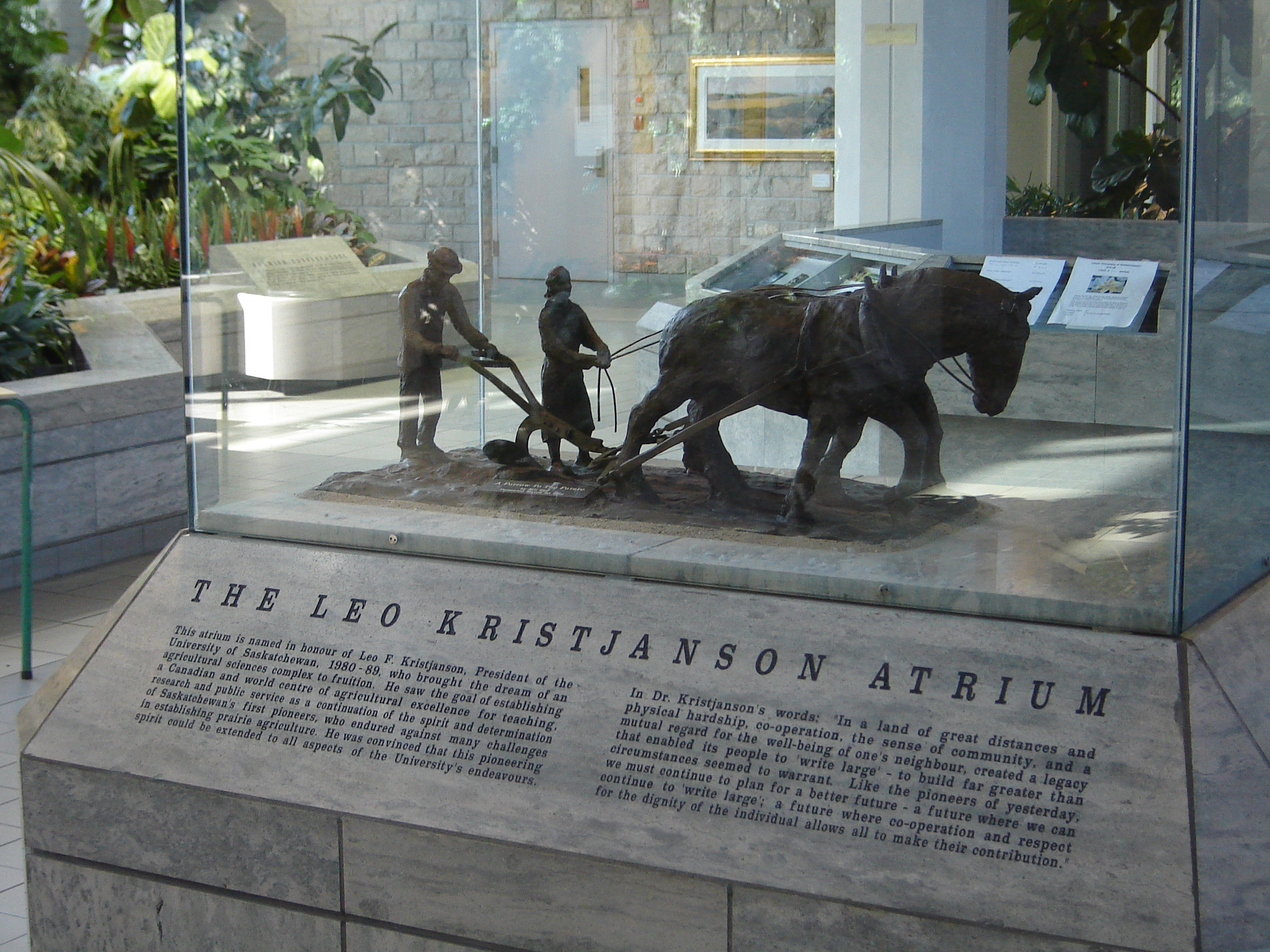 Leo Kristjanson Atrium Wikipedia:University of Saskatchewan Agriculture & Bioresources College U of S Saskatoon Saskatchewan Canada